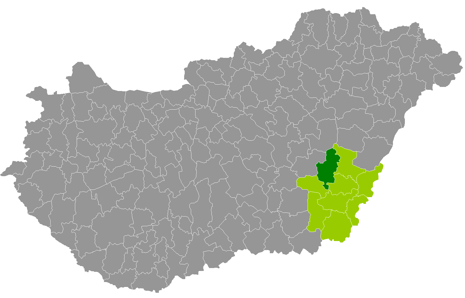 Location of Gyomaendrőd District, Békés, Hungary